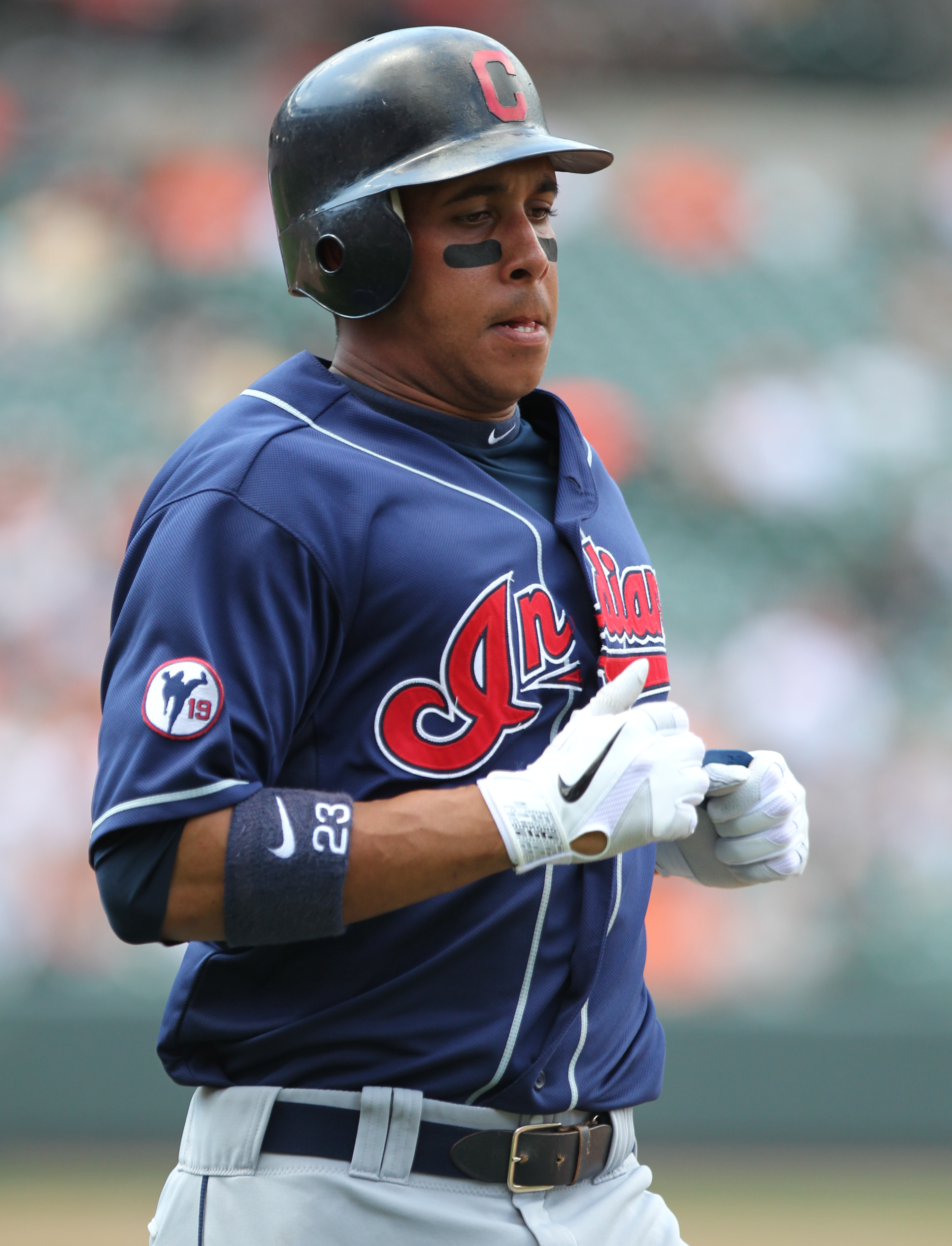 Indians at Orioles July 17, 2011.